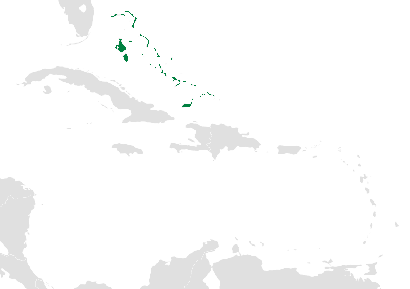 Map of the Caribbean nations. iThe source code of this SVG is valid. Map of the Lucayan Archipelago with the islands highlighted in green.